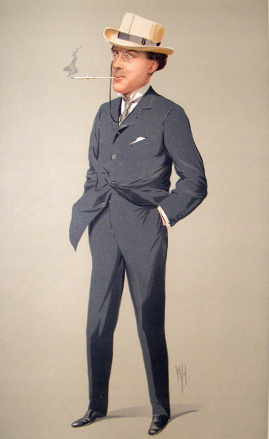 Caricature of Laurence Sydney Brodribb Irving.